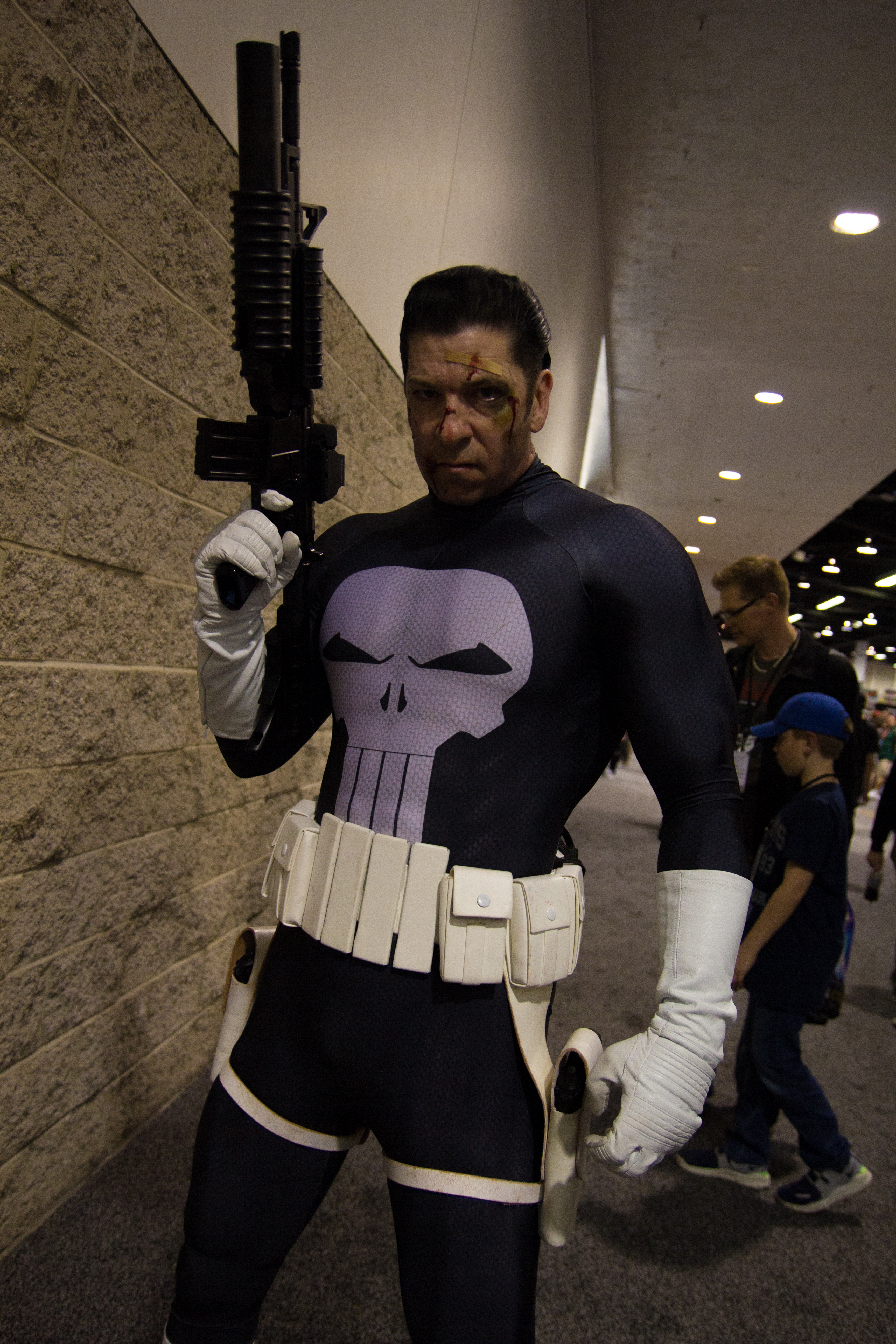 Cosplay of Punisher, WonderCon 2019.